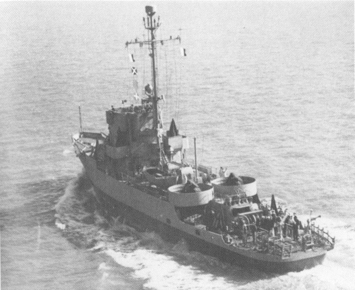 National Archives Photo 19-N-55263